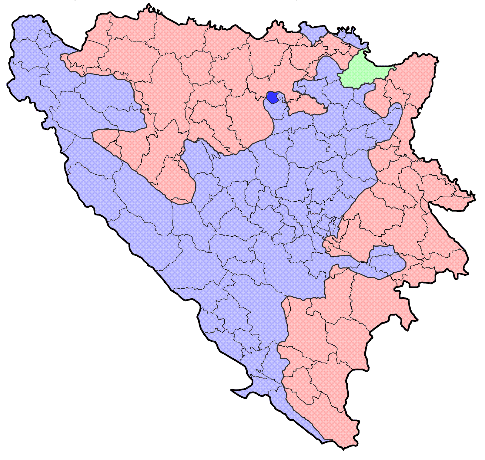 Location of Usora municipality in Bosnia and Herzegovina.